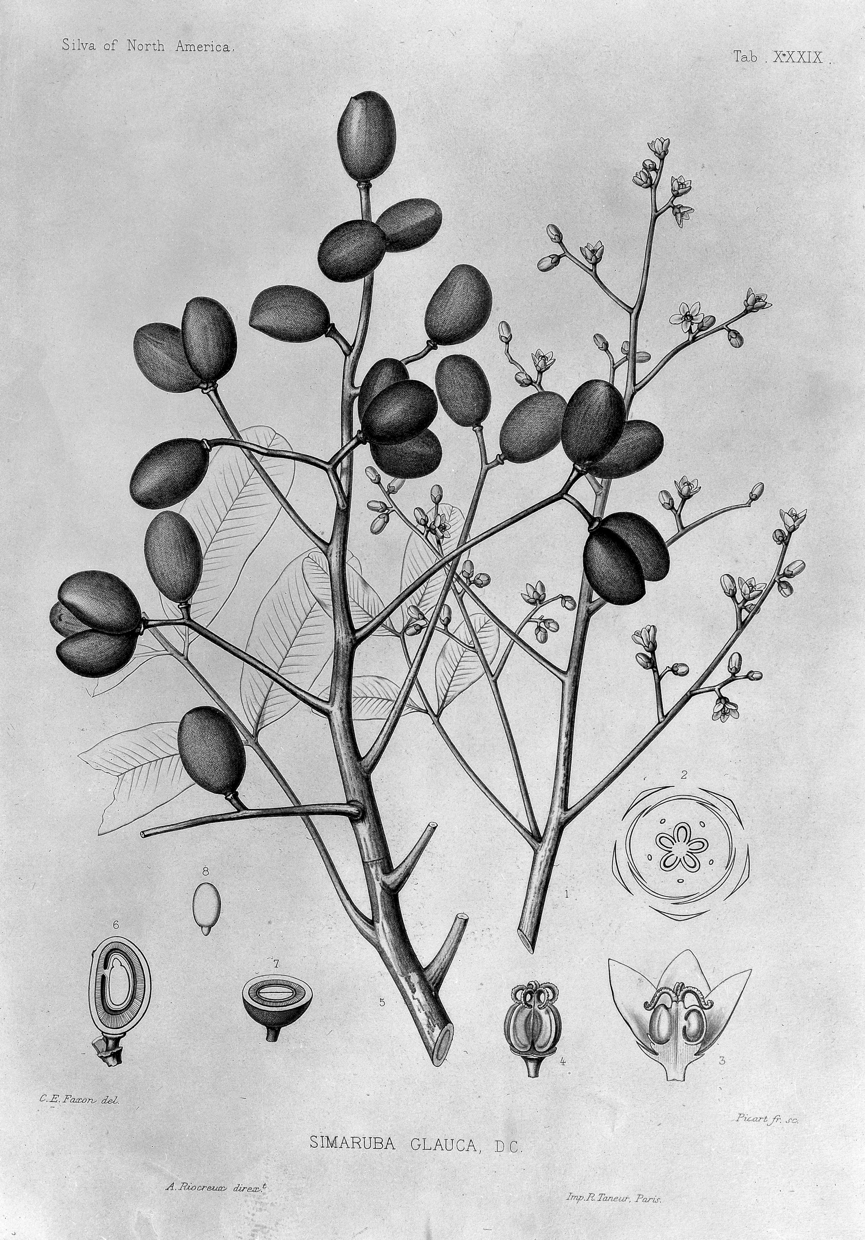 Simaruba Glauca 1. Pistillate inflorescence, nat. size. 2. Diagram of pistillate flower. 3. Vertical section of same enlarged 4. Ovary enlarged. 5. Panicle of fruit, nat. size. 6. Vertical section of fruit, enlarged. 7. Cross section of fruit enlarged, embryo much enlarged. Wellcome Images Keywords: North America; Botany